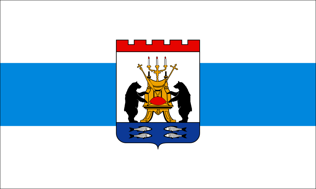 Flag of Veliky Novgorod, Novogord Region, Russia